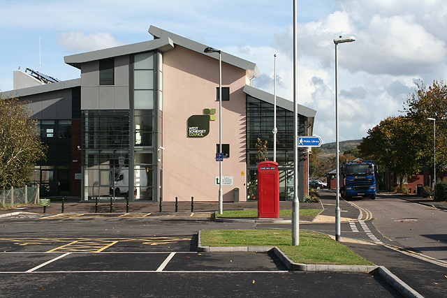 Williton: West Somerset Council offices With two car parks, toilets and a public library almost adjoining